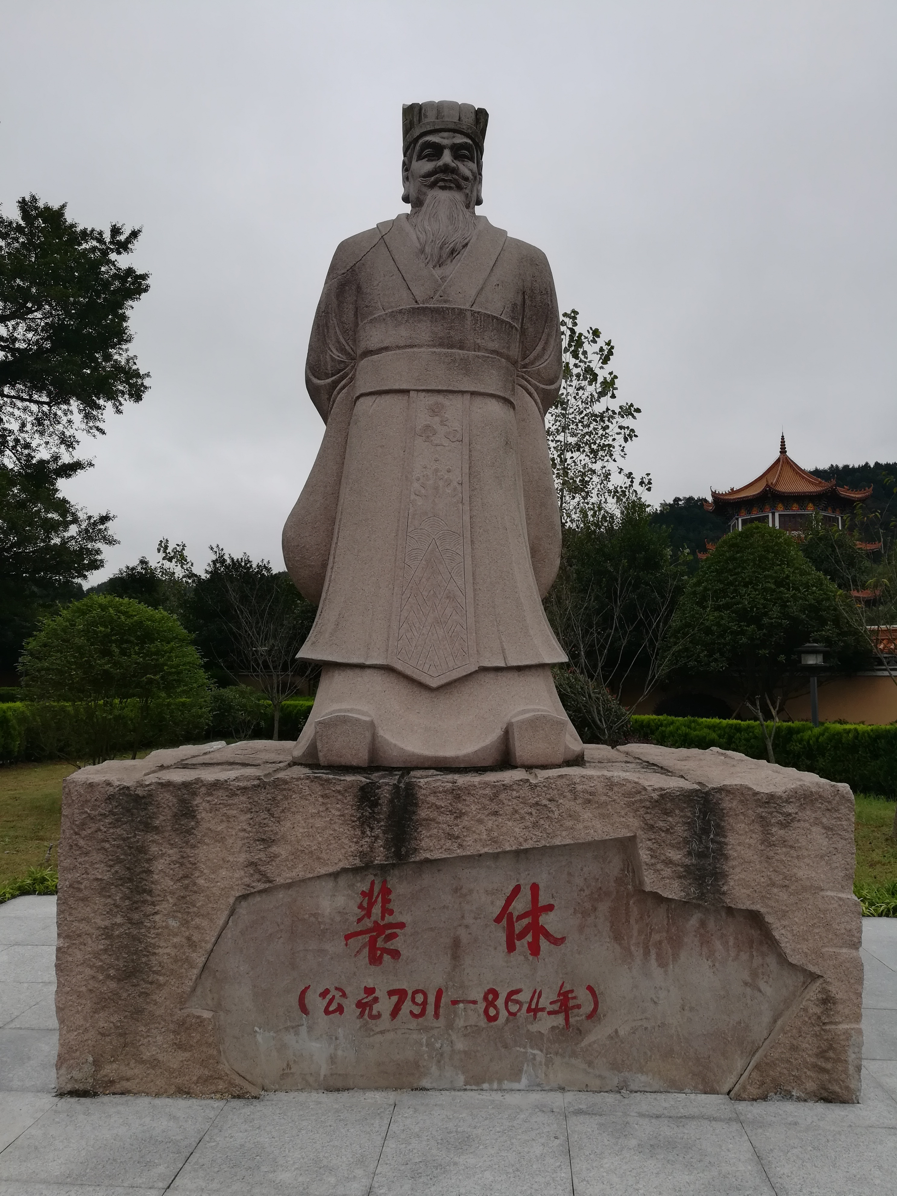 Statue of Pei Xiu in Miyin Temple. Statue of Pei Xiu in Miyin Temple. Pei Xiu was an official of the Chinese dynasty Tang Dynasty, serving as a chancellor during the reign of Emperor Xuanzong. 中文（中国大陆）: 密印寺的裴休像。裴休是中国唐代的宰相。